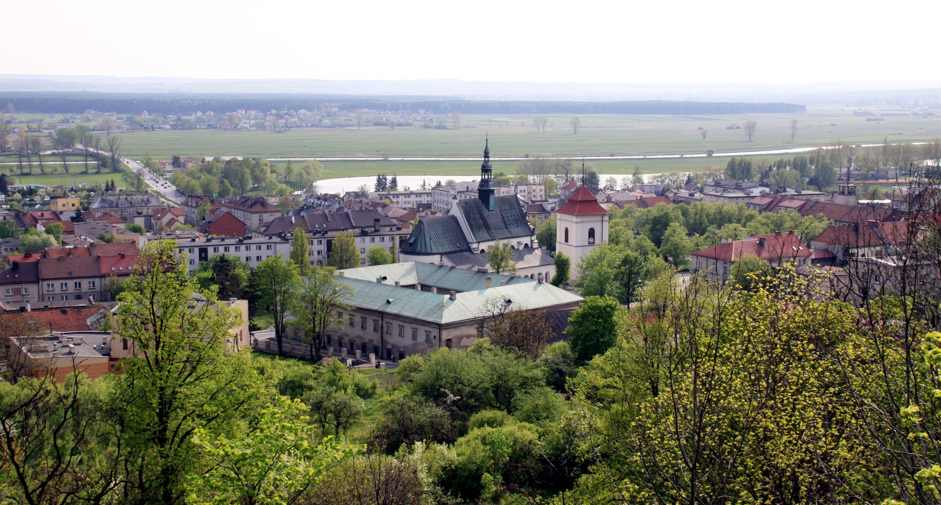 Pińczów, view from Mount St. Anne - city center with St. John the Evangelist Church and the valley of Nida River.